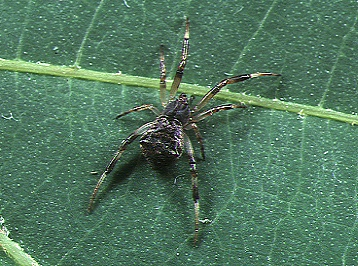 female Episinus nubilus from Okinawa.